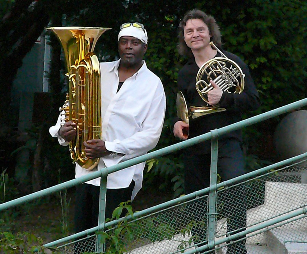 C Jon Sass